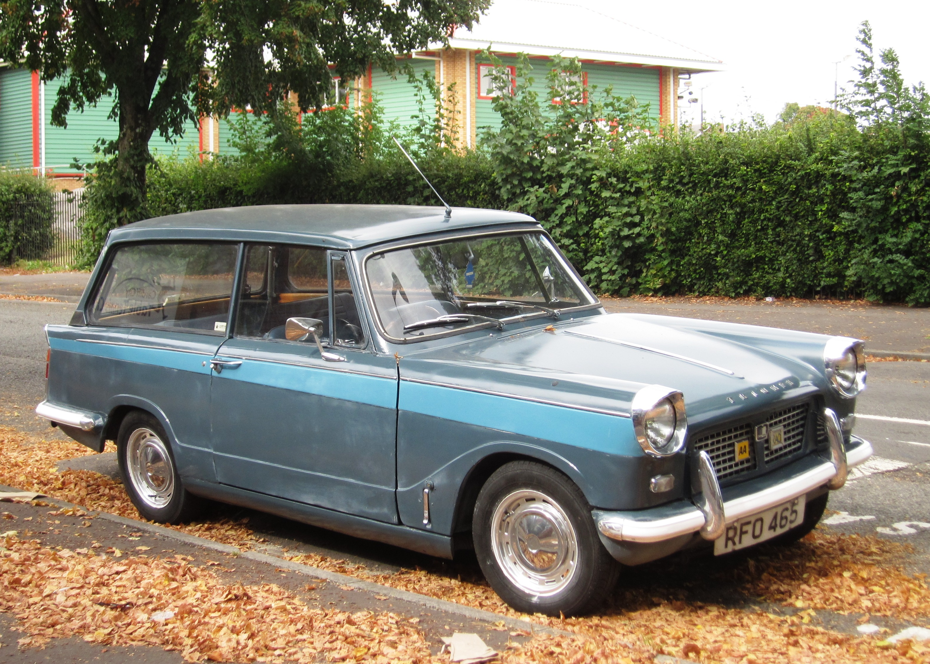 Triumph Herald 1200 estate (1964) in Cathays (2014)